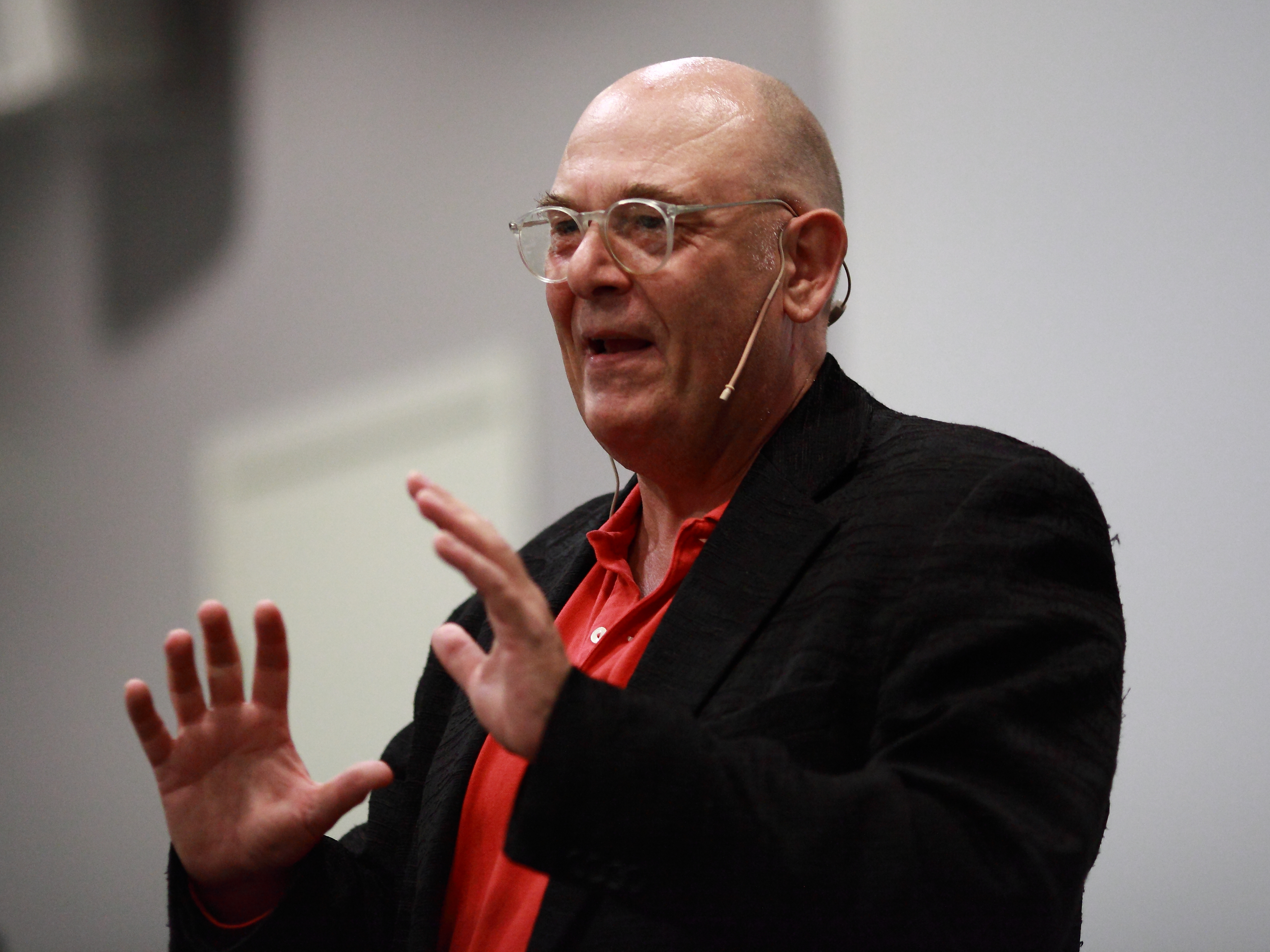 Herodes Falsk, Norwegian entertainer, in performance, 2011.